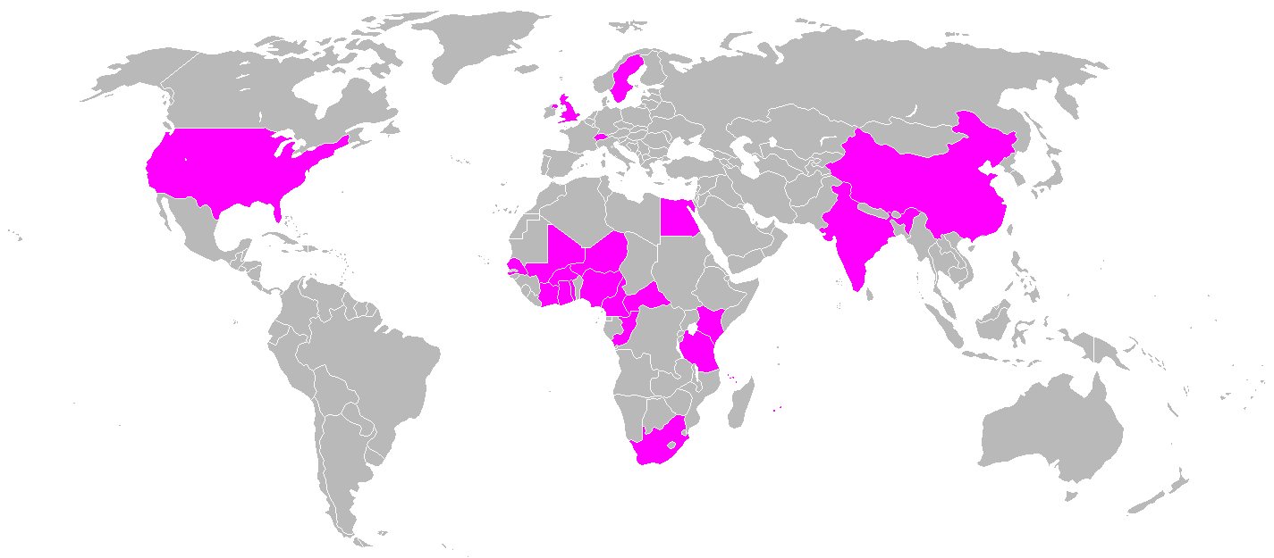 World map of countries with citizens on the Kenya Airways flight 507 that crashed in Cameroon on May 5, 2007.